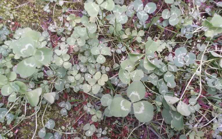 A patch of clover